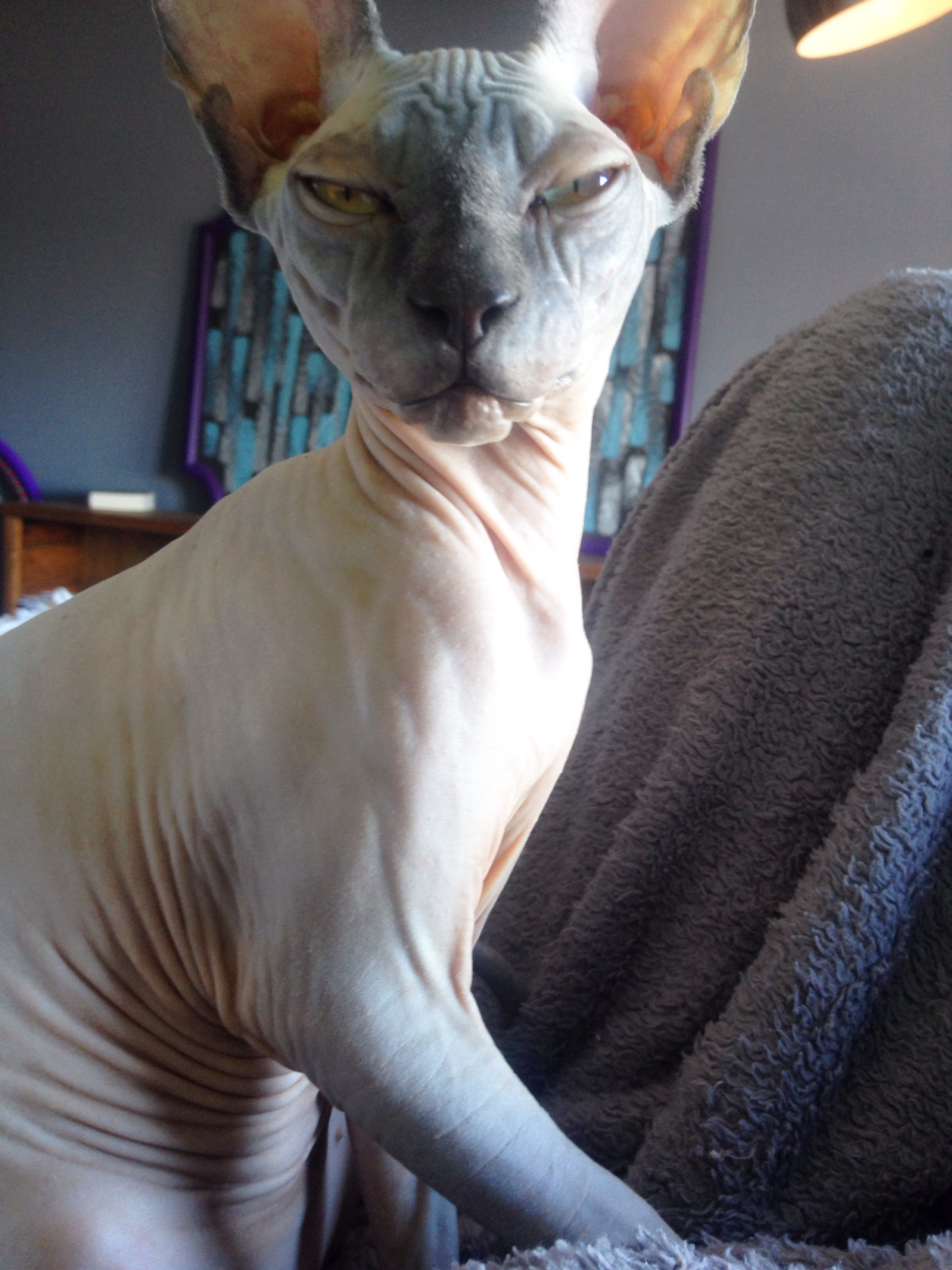 A male purebread Sphynx in the "mink" coloration. Like a pointed cat, the mink color pattern also exhibits darker points: the ears, tips of tail, feet and nose. However, whereas the pointed pattern is enitirely colorless everywhere else on the body, the mink coloration has some color throughout the body and darker points.